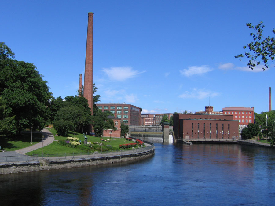 Tammerkoski rapids.